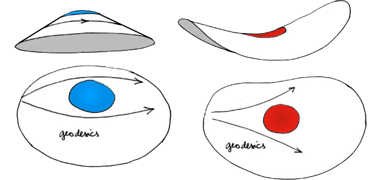 Curvature produced by a positive mass vs a negative mass on a 2D surface embedded in a 3D space: "posicone" (positive amount of curvature) vs "negacone" (negative amount of curvature, giving a hyperbolic geometry). Path of photons along the null-geodesics of such surfaces: a positive mass produces positive (converging) gravitational lensing, while a negative mass produces negative (diverging) gravitational lensing.